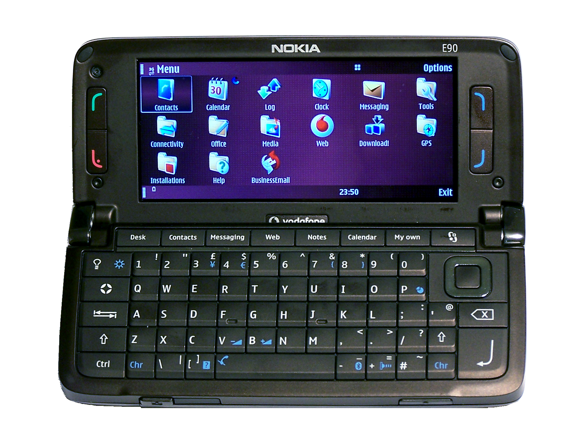 A Nokia E90 (open).